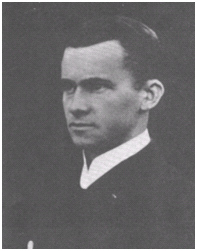 Hans Paasche from the private archive of Helga Paasche